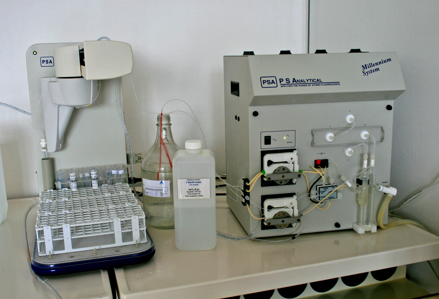 Fluorescence analyzator Merlin for very senstive mercury determination from P.S.Analytical Company production